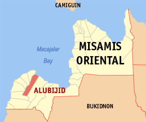 Map of the Misamis Oriental showing the location of Alubijid